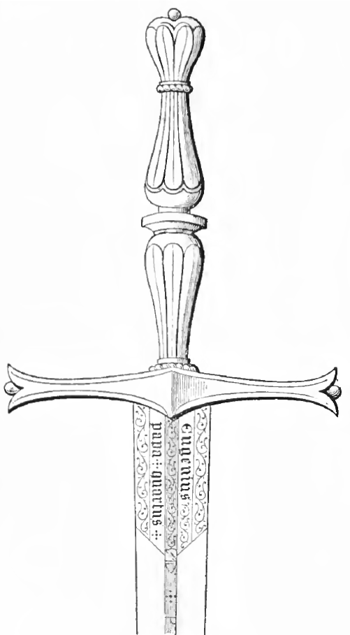 Blessed Sword of John II, King of Castile